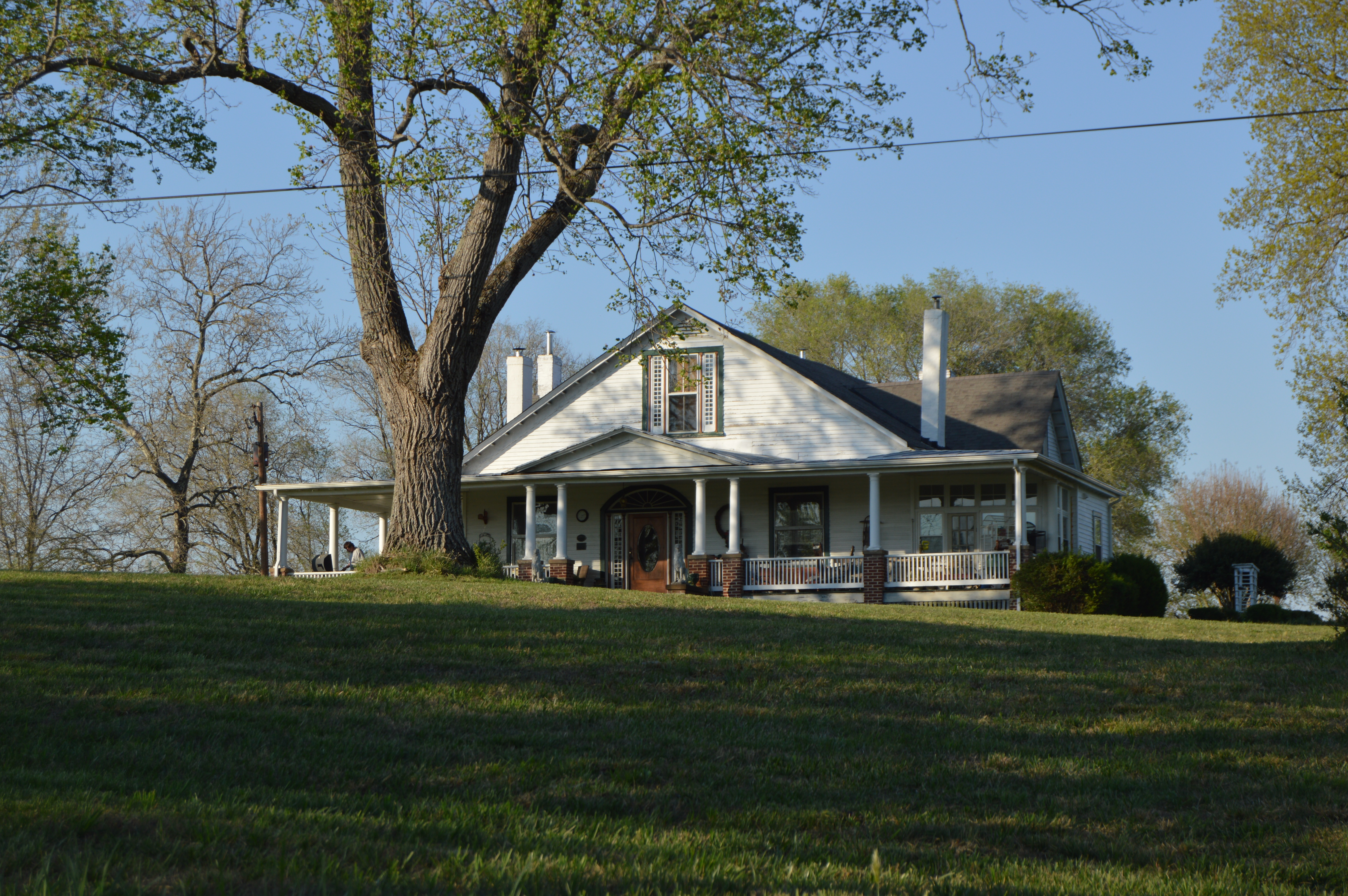 Front of the Brook Hill Farmhouse, located on Bellevue Road east of Goode in Bedford County, Virginia, United States. Built in 1904, it is listed on the National Register of Historic Places, and it is part of a Register-listed historic district, the Bellevue Rural Historic District.